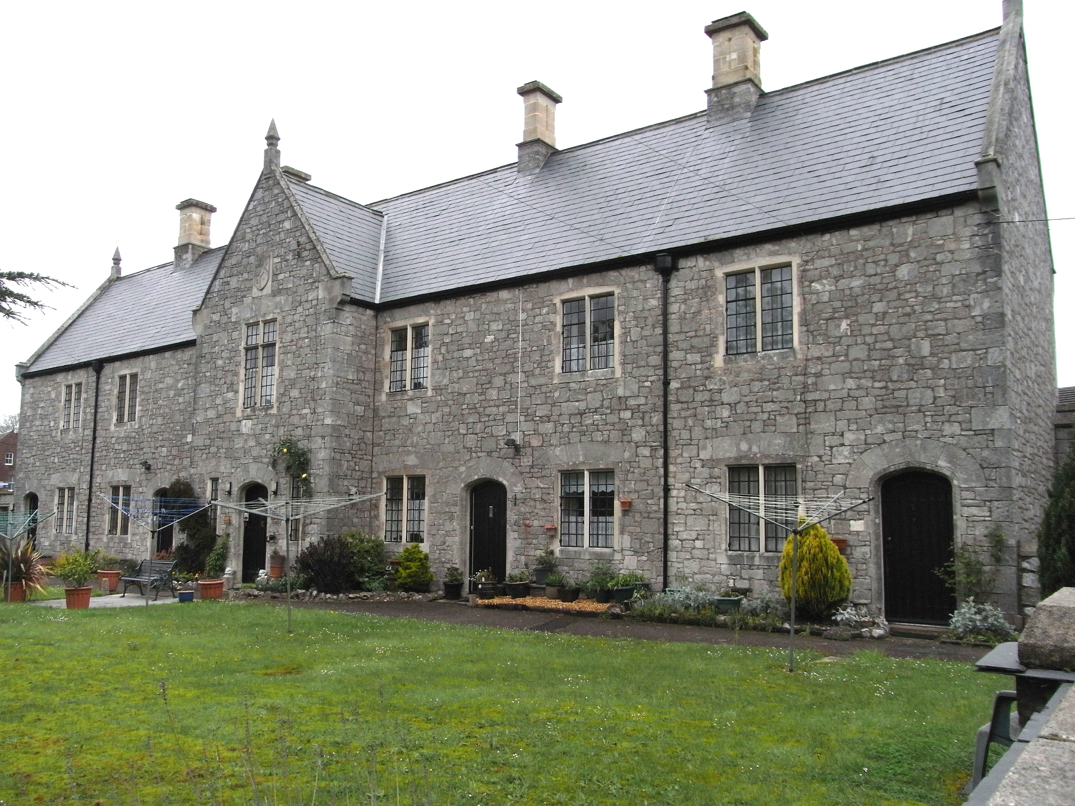 Livery Dole, Exeter. The westernmost of two identical blocks of 6 dwellings each erected by Louisa, Lady Rolle in 1849, replacing those from 1594. Viewed from SE